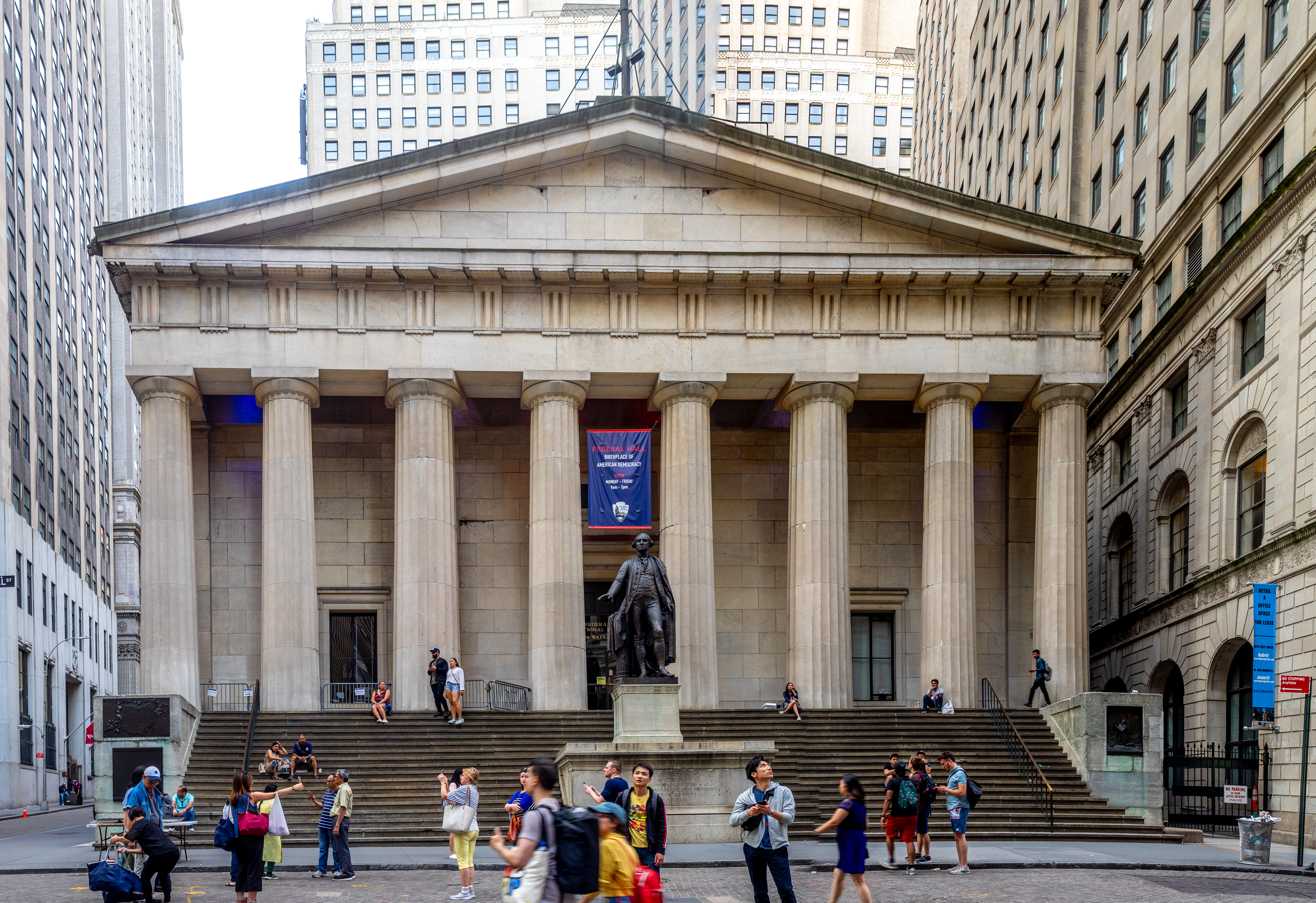 Financial District, NYC